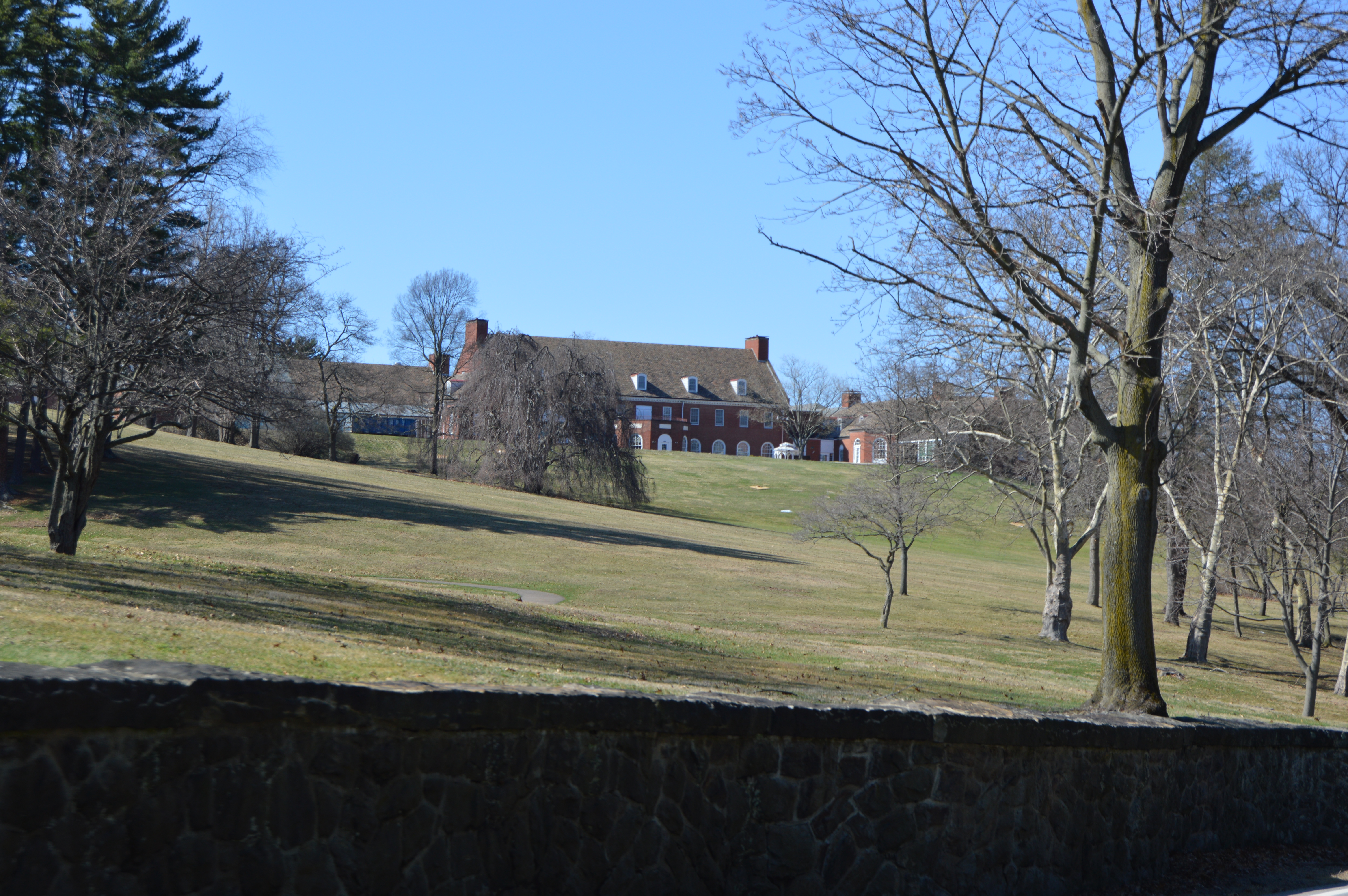 Part of the HealthSouth Rehabilitation Hospital complex, seen looking northwest from Camp Meeting Road in Leet Township, Allegheny County, Pennsylvania, United States.